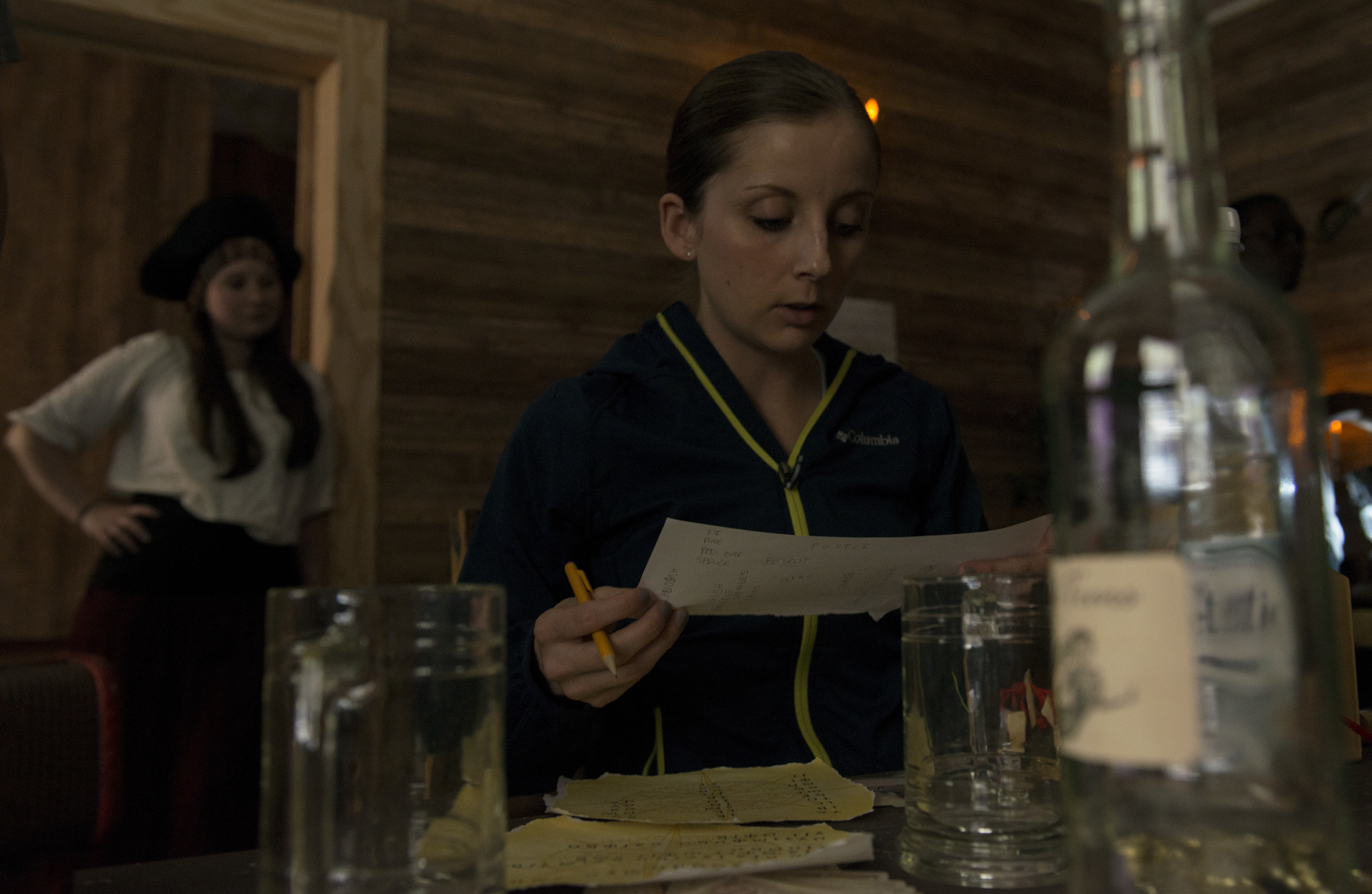 Staff Sgt. Leslie Keopka, 86th Airlift Wing Public Affairs photojournalist, works on a clue while participating in the 86th Force Support Squadron Vogelweh Community Center’s Port Royal Mystery Escape Room on June 21, 2016, at Vogelweh Military Complex, Germany. The community center is slated to unveil a grand opening of the escape room June 24, 2016, at Crossroads Community Center Annex. (U.S. Air Force photo/Airman 1st Class Tryphena Mayhugh) Unit: 86th Airlift Wing